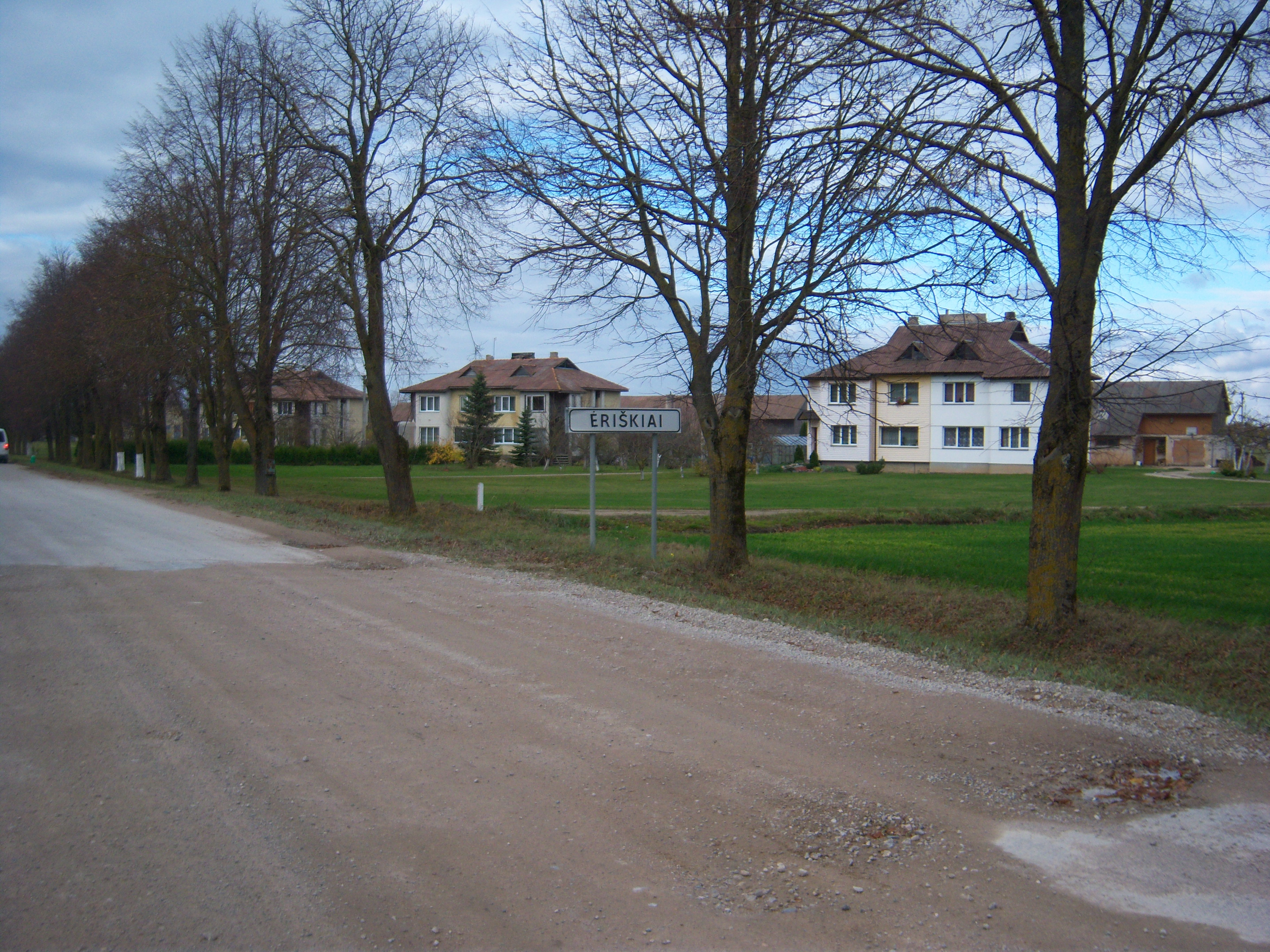 Ėriškiai, Panevėžys District, Lithuania